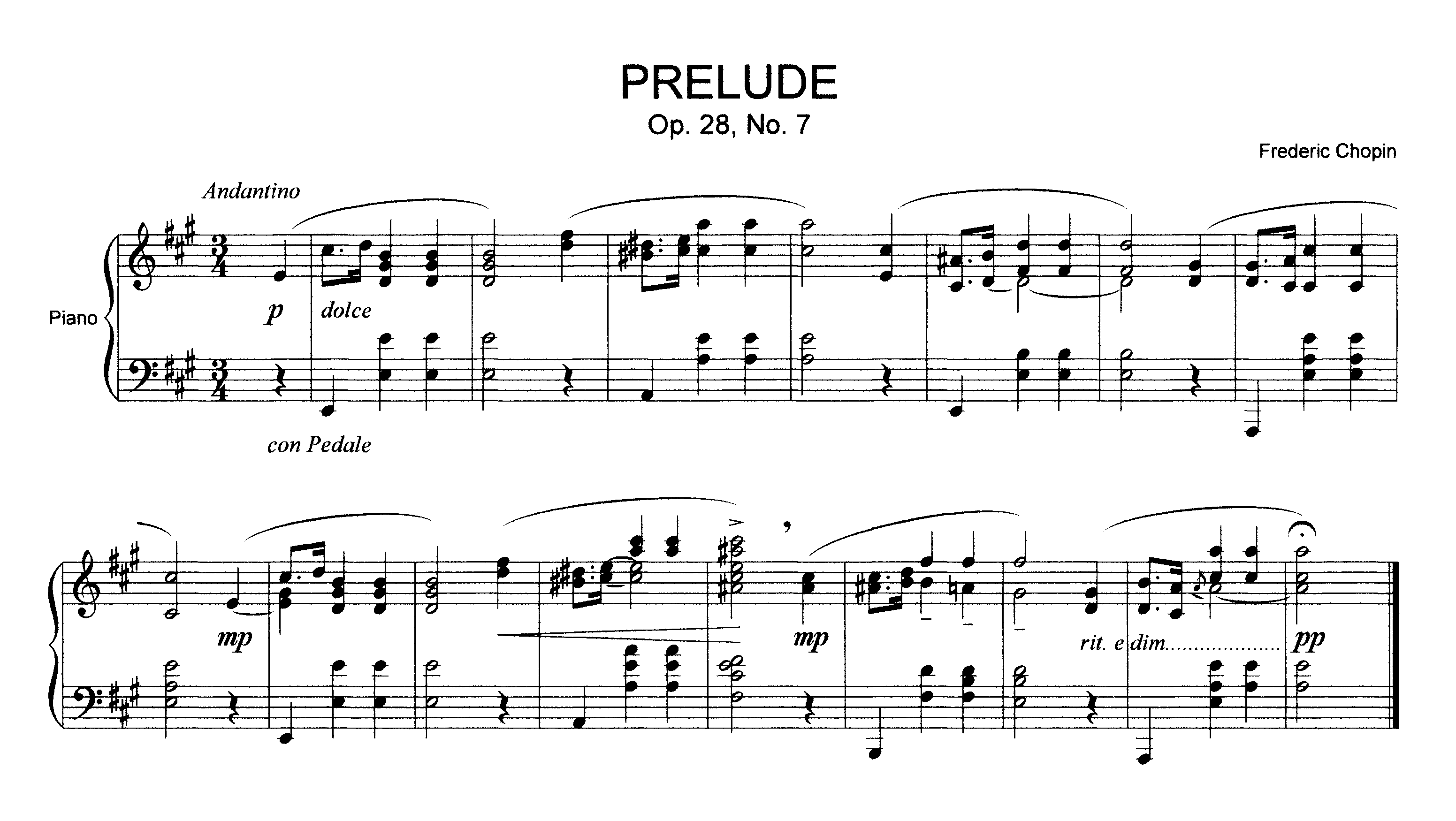 part of Frederic Chopin's Prelude No. 7